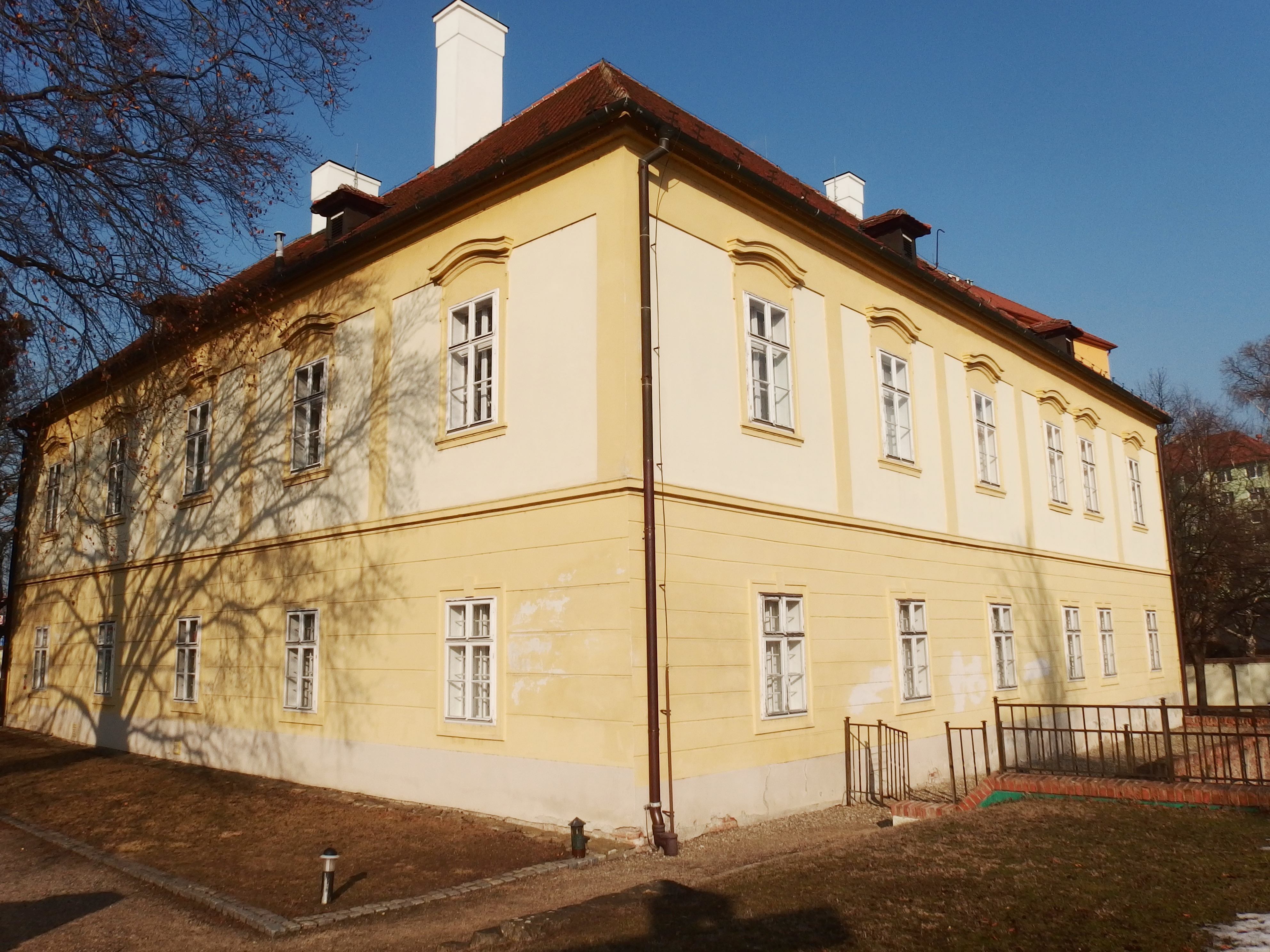 Hodonín, Czech republic. Chateau, today a museum.